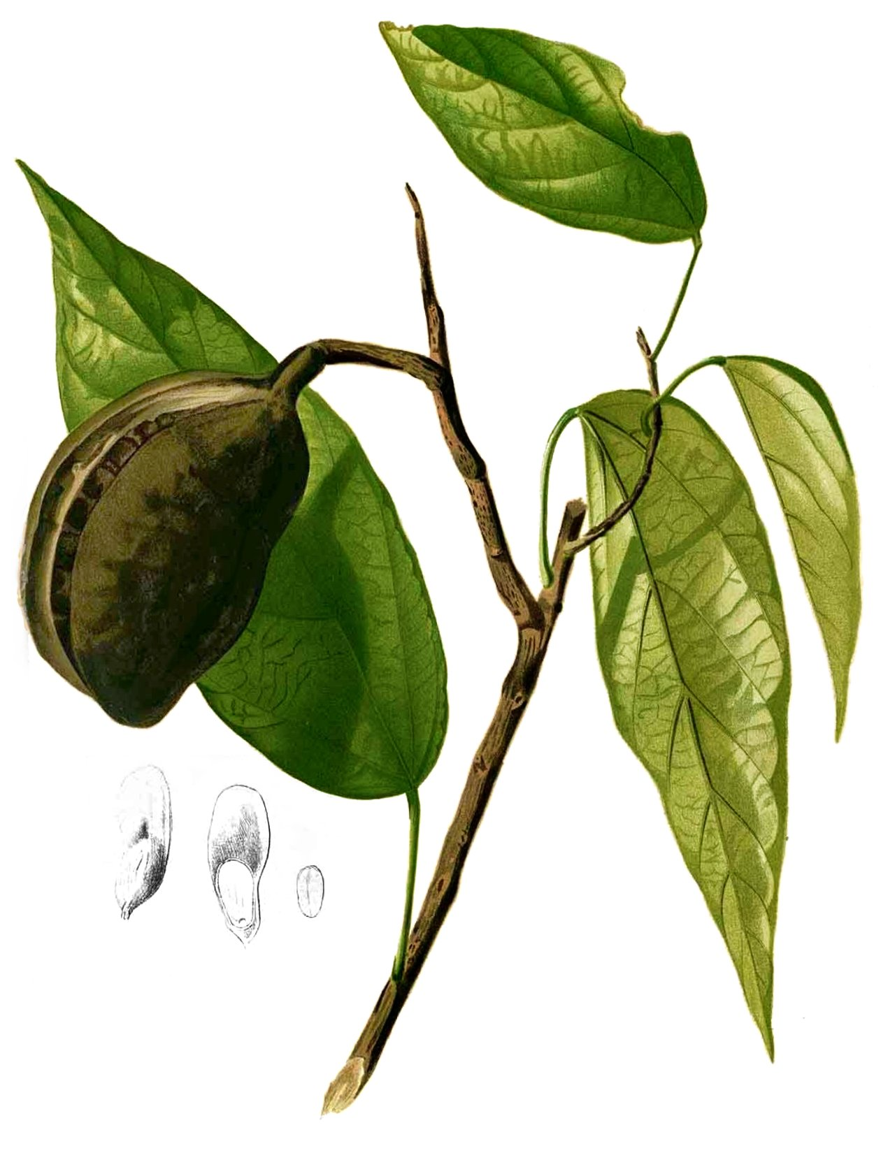 Plate from book